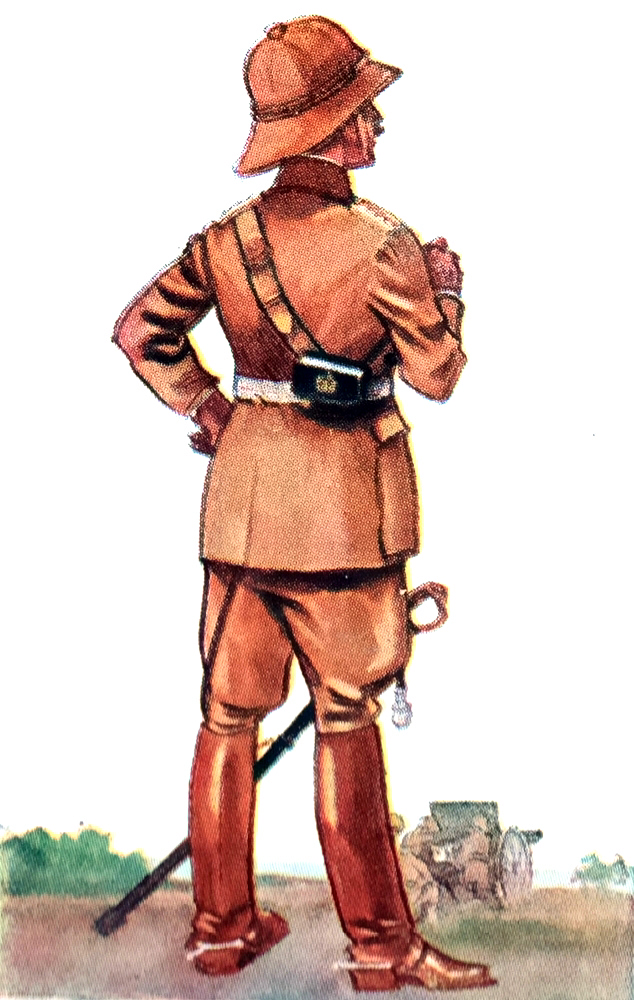 Captain of the naval field battery, Imperial German Navy, in khaki service dress round about 1910